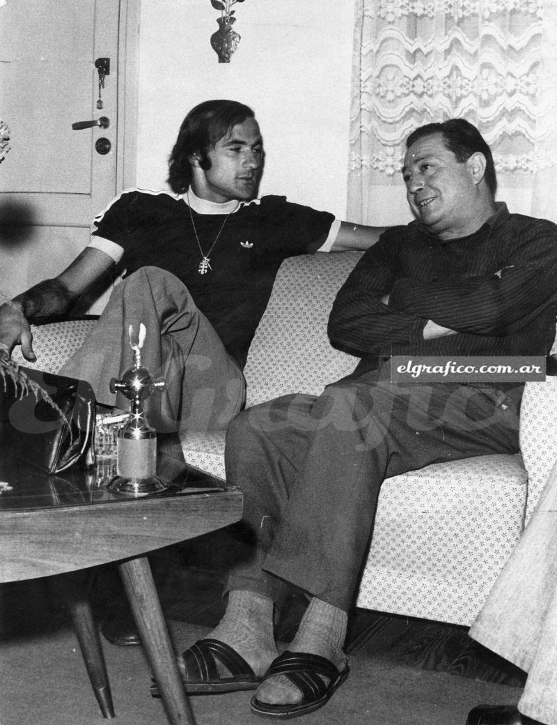 Football forwards Héctor Scotta (left) and legendary Arsenio Erico during their meeting at Erico's house in Buenos Aires. The interview was published on El Gráfico magazine. That same day, Scotta had scored his goal n° 47 v. Boca Juniors, reaching the record Erico held until then (47 goals in 1937). Scotta still holds the record of most goals scored in a season (60 in 1975).